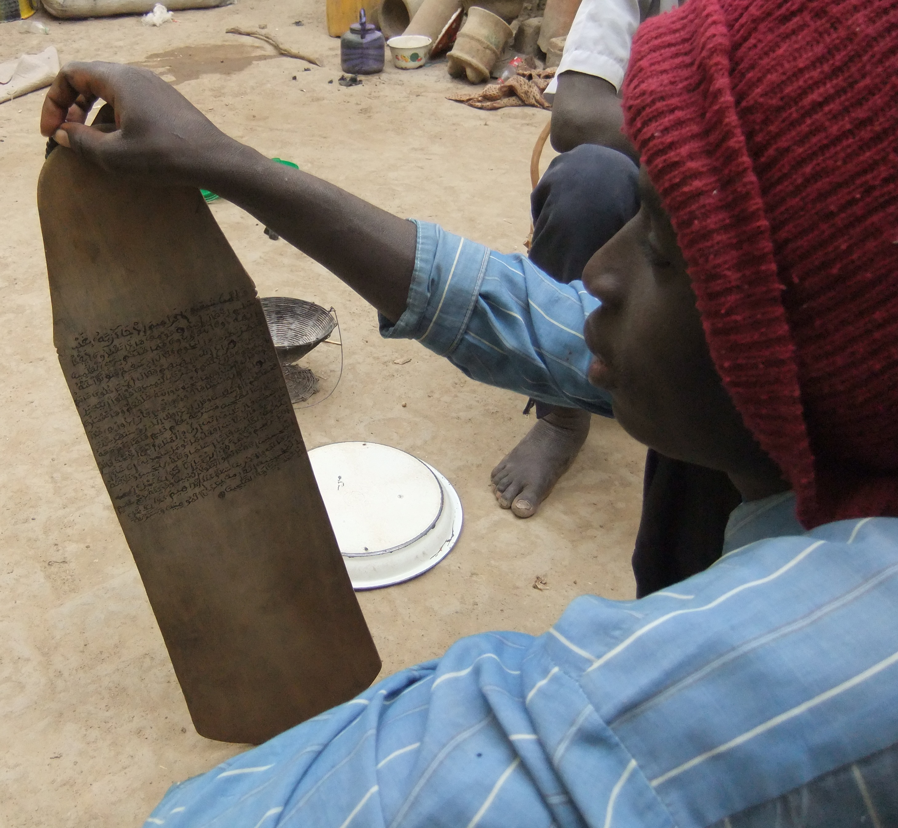 Djenne, Mali This is an image of "African people at work" from Mali